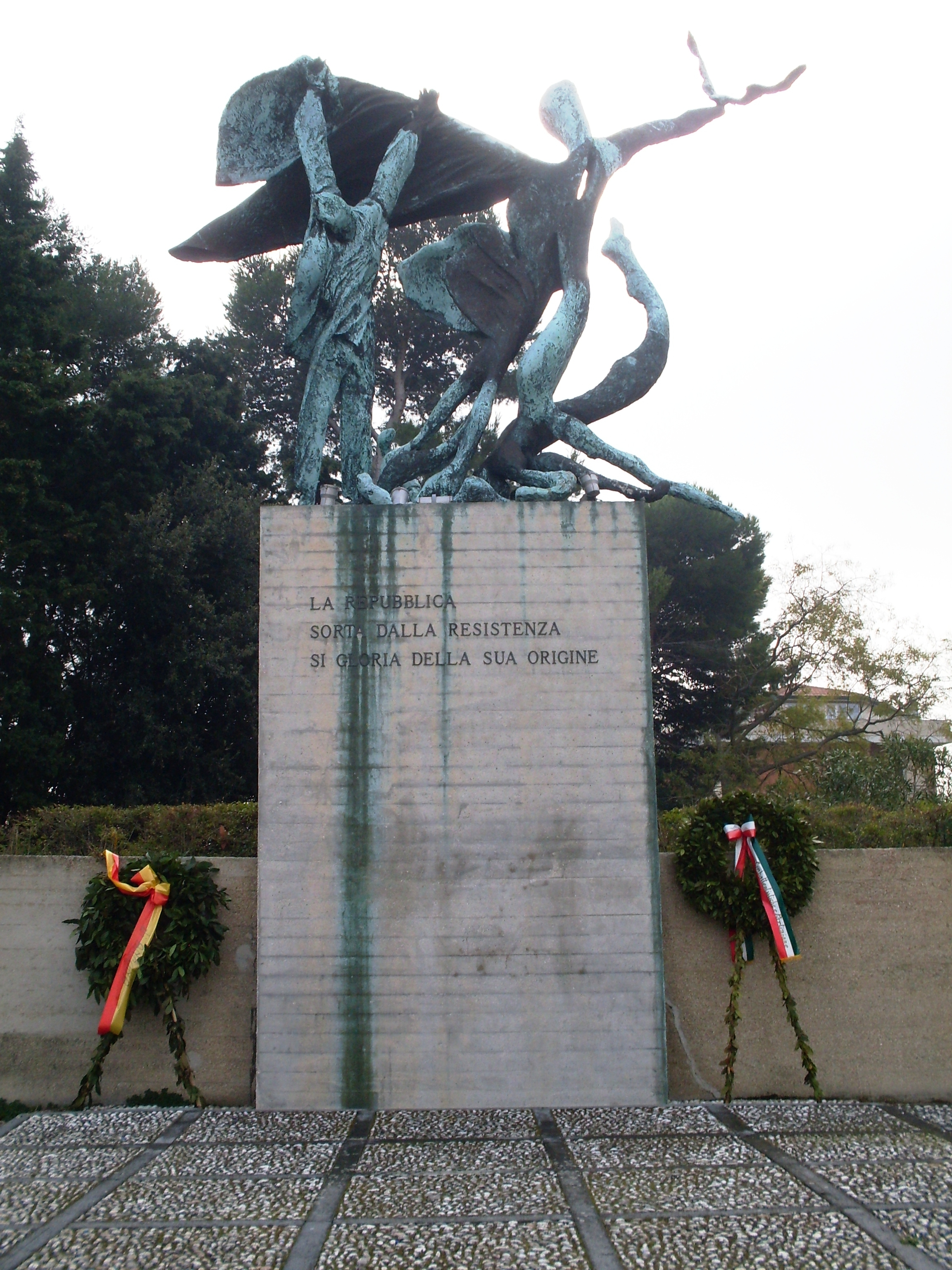 Italy Ancona - Pincio Park - Monumento of the Partisan